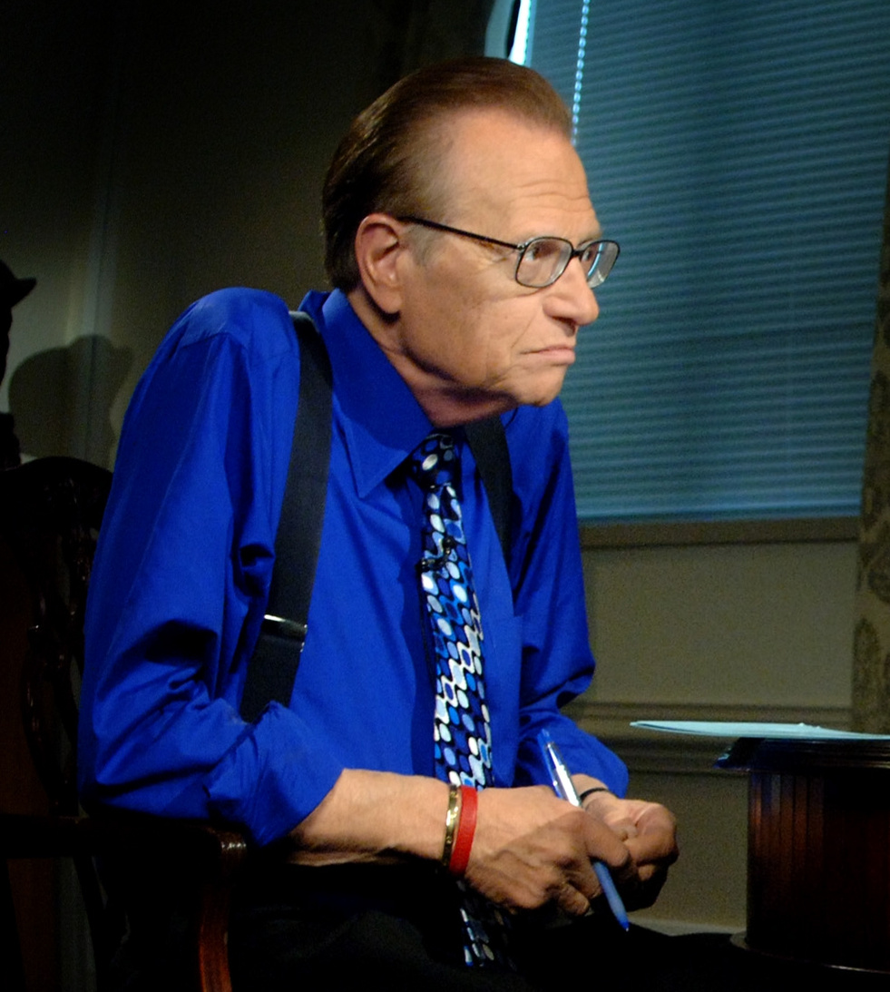 Secretary of Defense Donald Rumsfeld answers a question from CNN's Larry King during a videotaping of his Larry King Live program at the Pentagon in Arlington, Va.